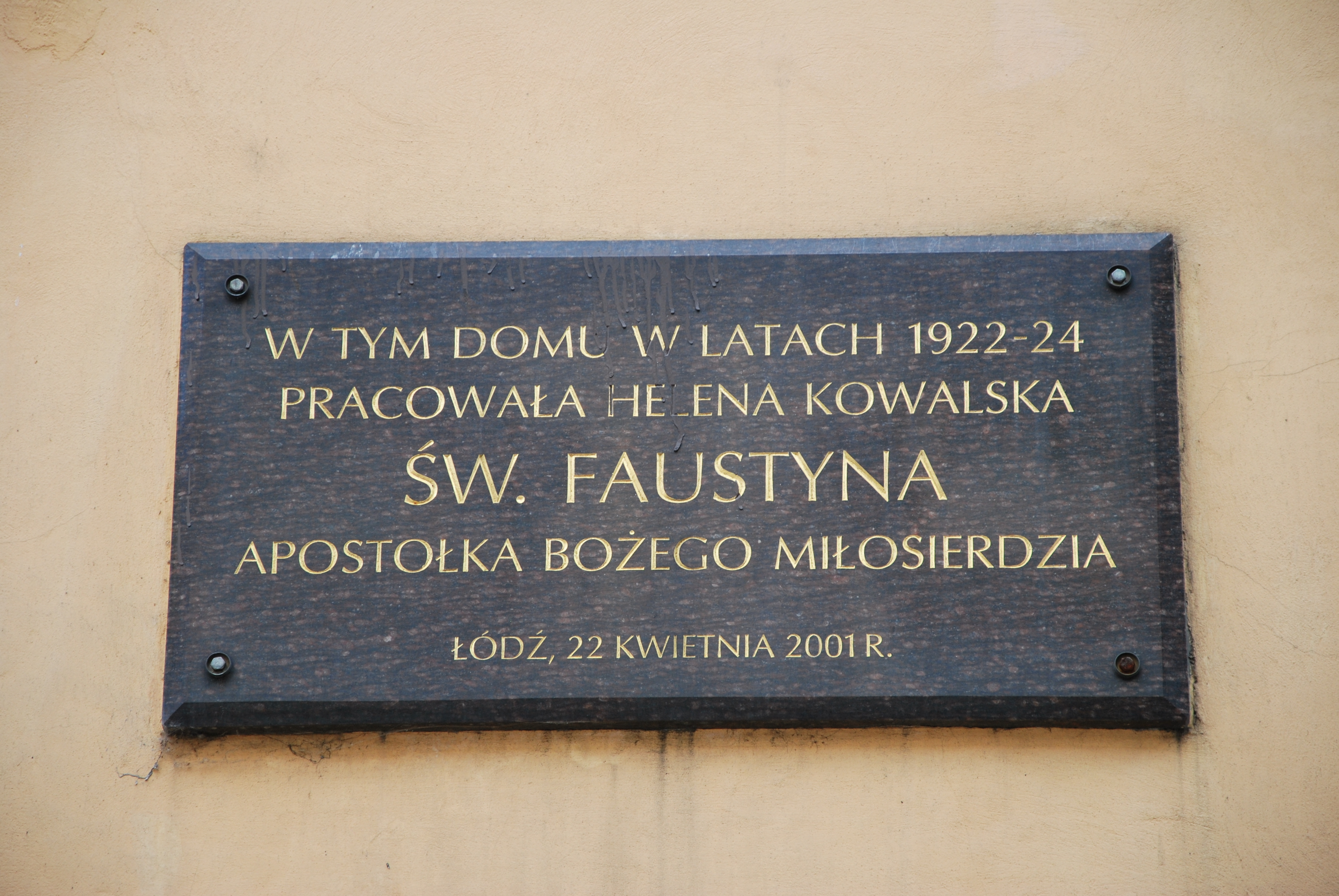 Plaque St. Faustyna, Łódź 29 Abramowskiego Street